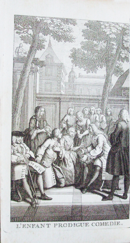 Frontispice de L'enfant prodique de Voltaire Amsterdam Ledet 1739